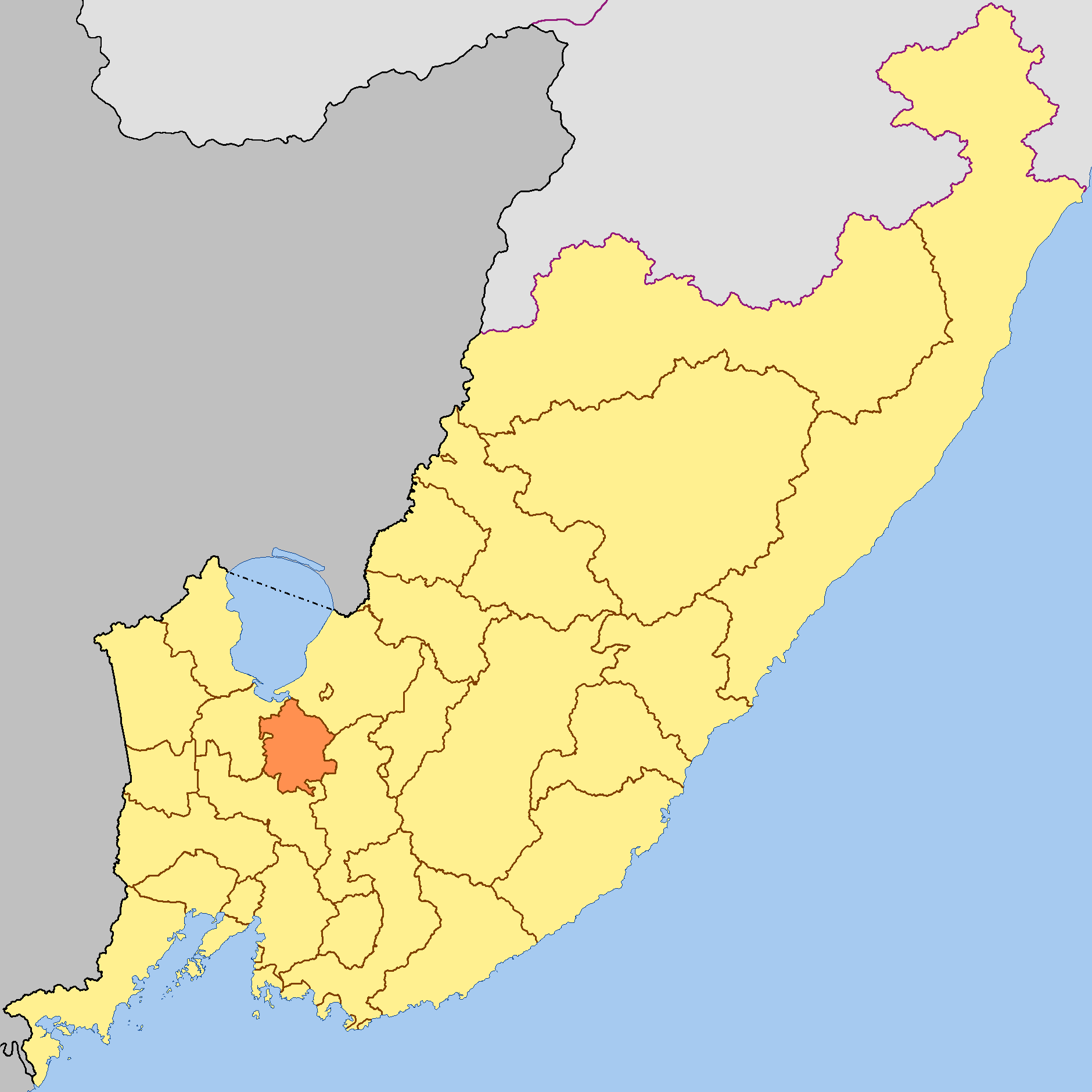 Chernigovsky district on the map of Primorsky kray